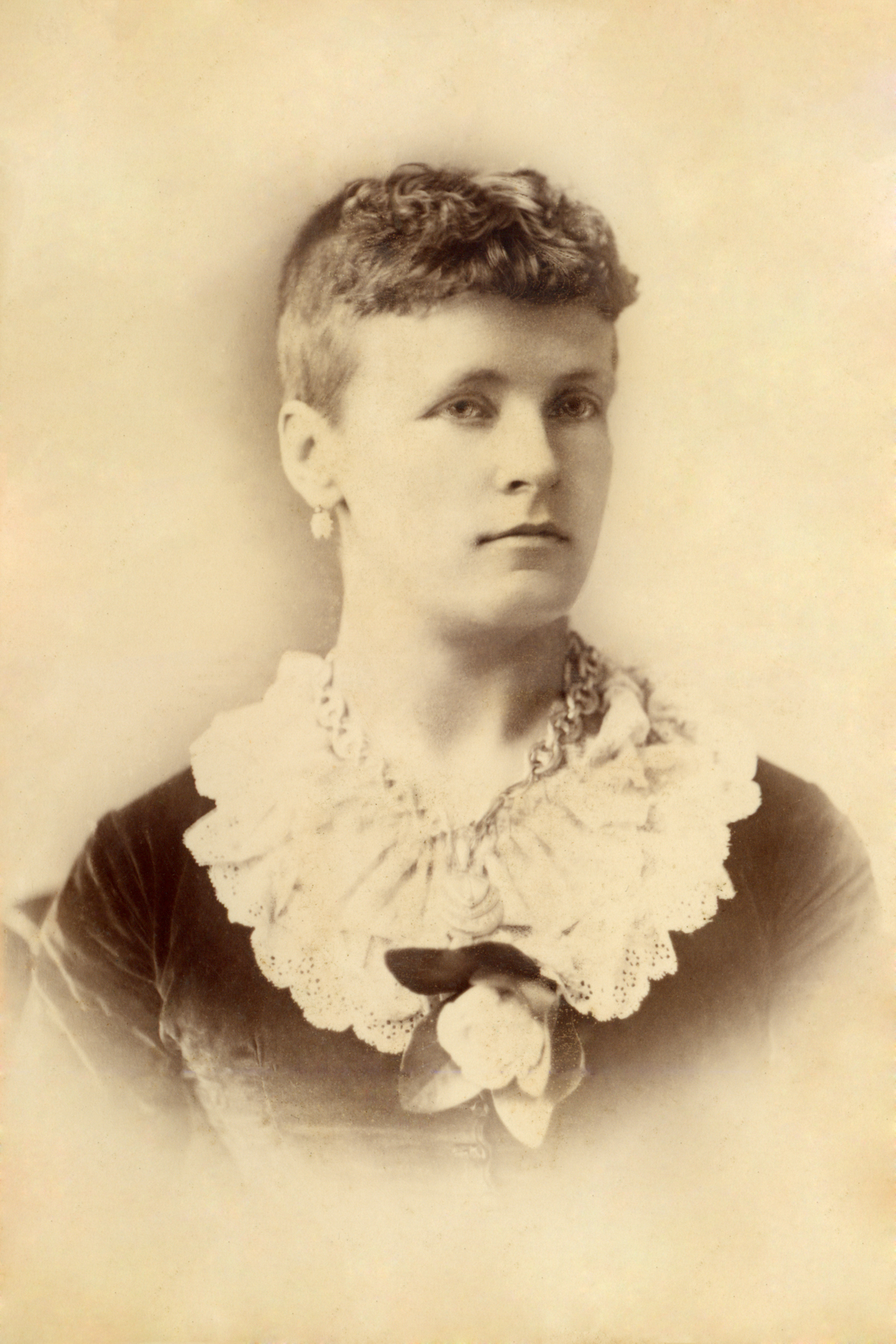 Portrait of a New Zealand suffragist circa late 1880s, wearing a white camellia (the NZ symbol of Women's Suffrage). The young woman has also cut off her hair, another symbol of protest during the period.